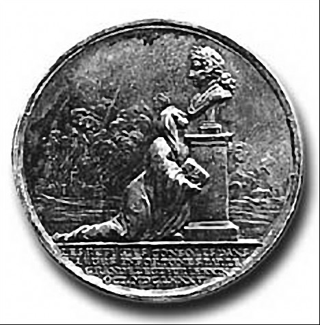 Medal on the occasion of the 100. anniversary of the Edict of Potsdam.